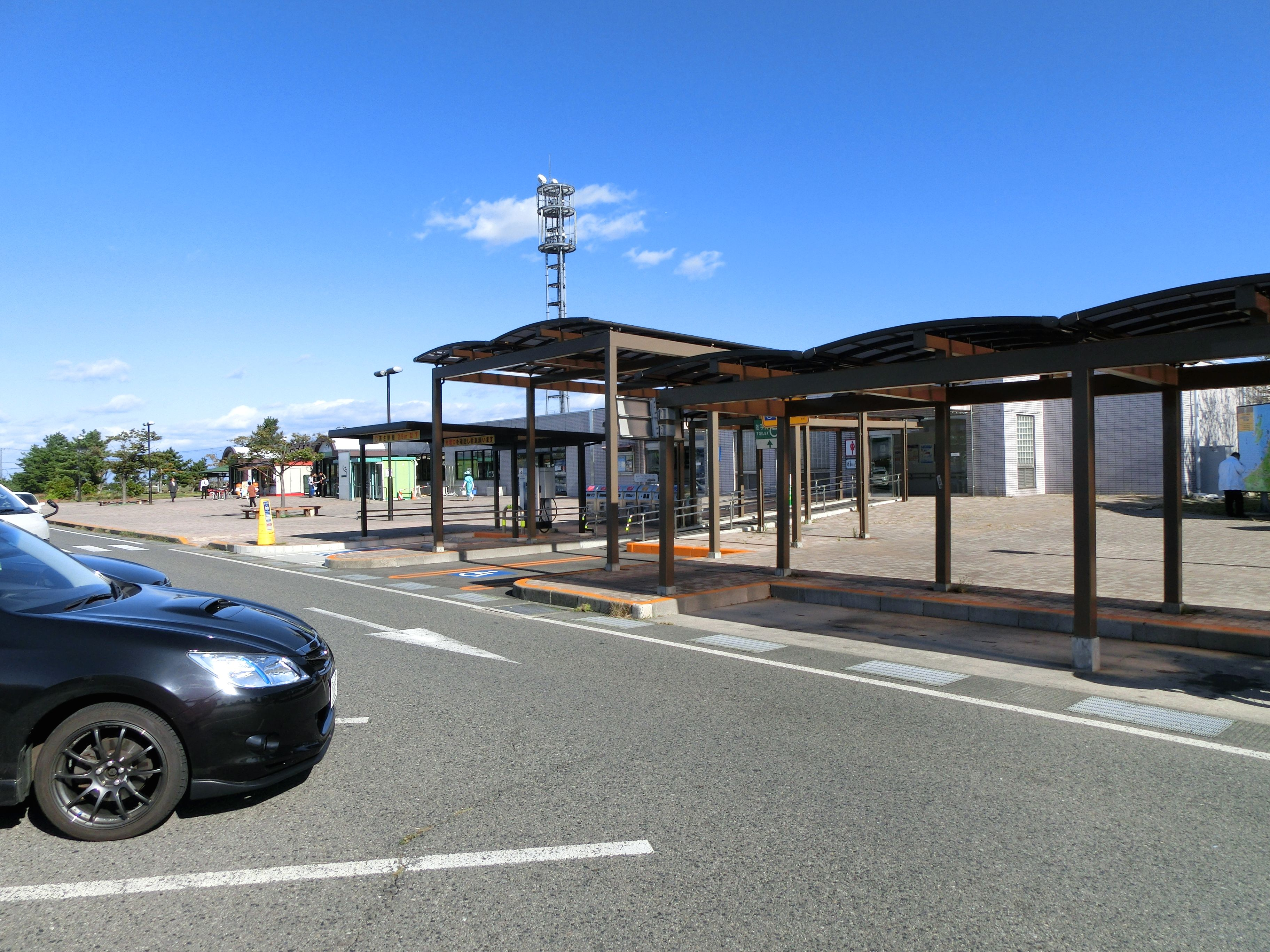 Kurosaki Parking Area on the Hokuriku Expressway inbound line